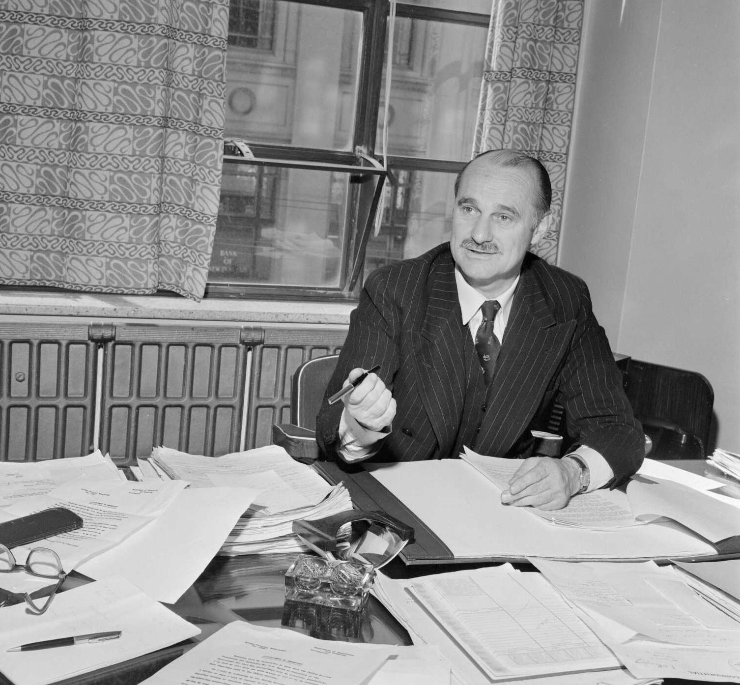 Photograph of William Ball Sutch, Secretary of Department of Industries and Commerce, at his desk.